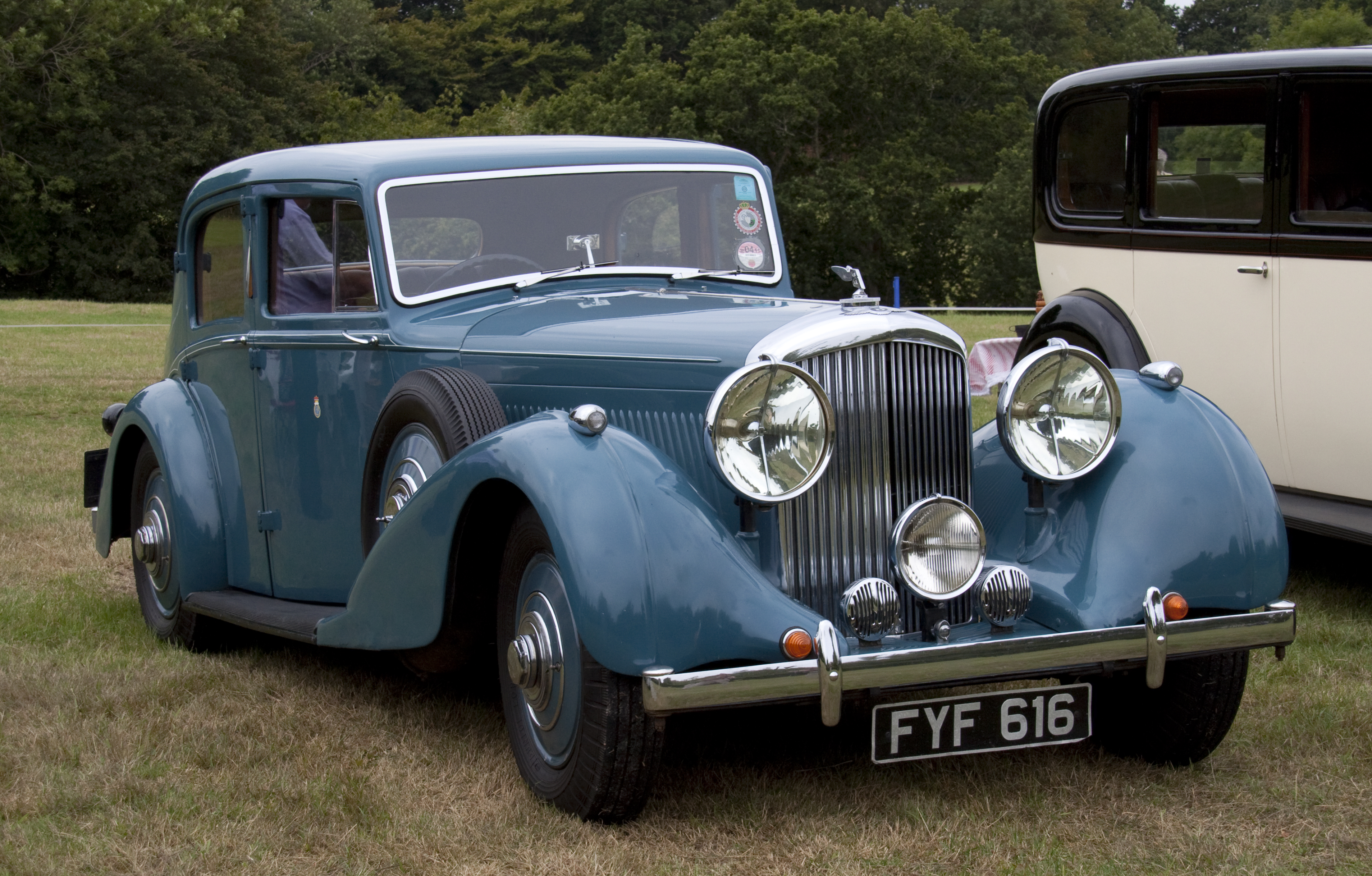 Blue Bentley 4¼-litre 4257cc first registered 29 February 1940Bentley 4¼ Litre, #B183MX, Park Ward sports saloon, 1939